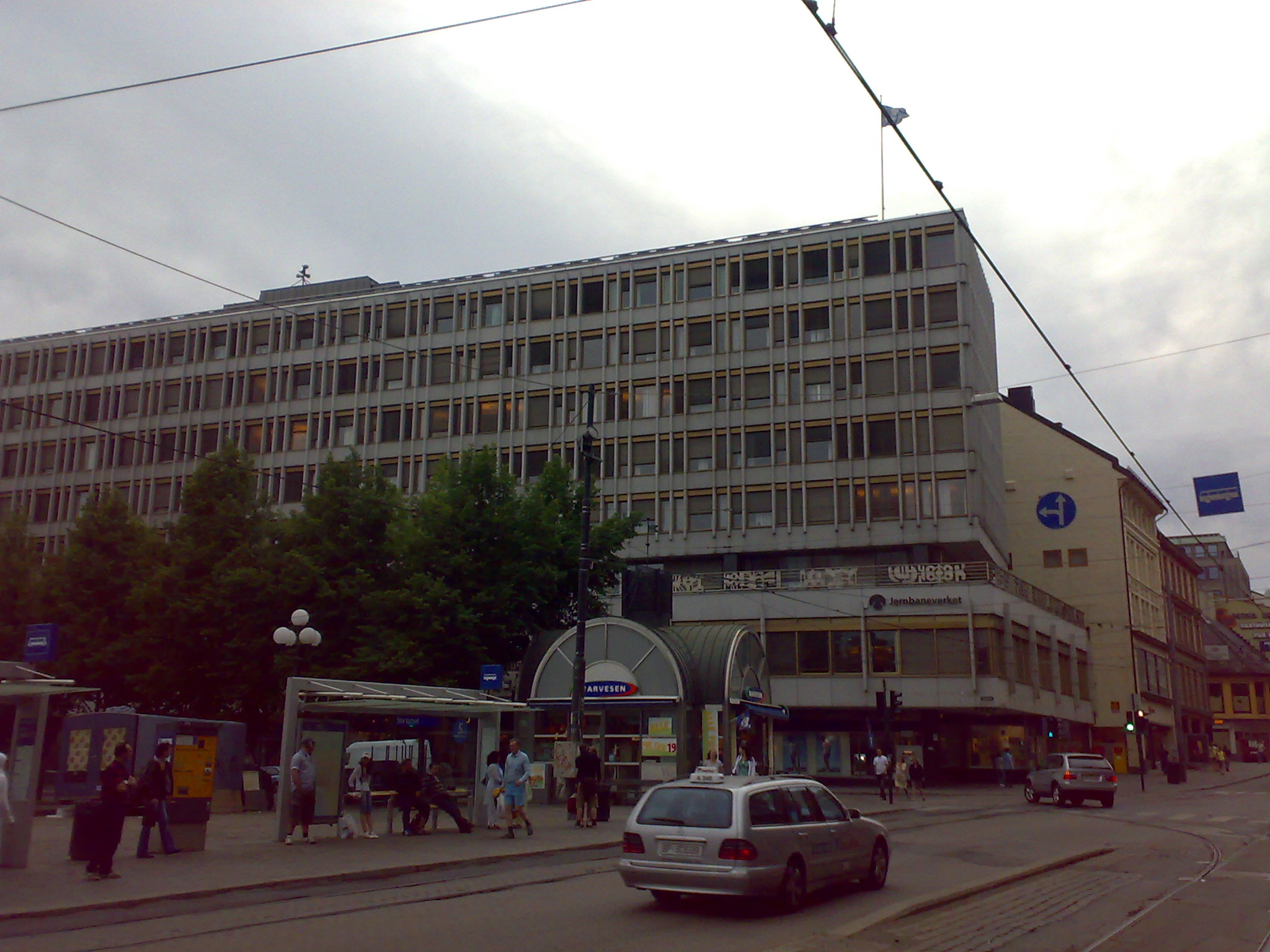 JVB headquarters, Oslo, Norway